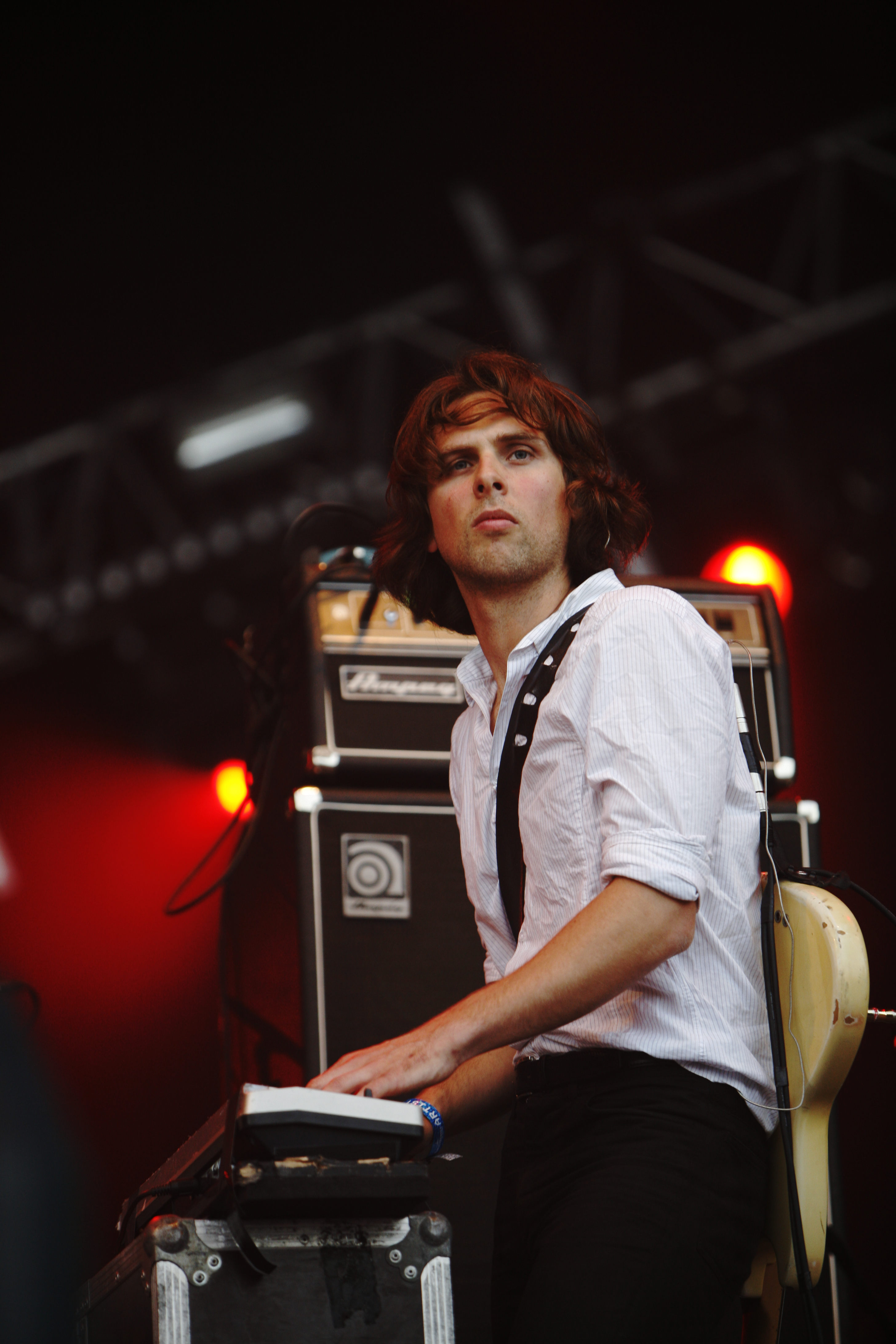 Phoenix at the Eurockéennes of 2007 : Deck D'Arcy